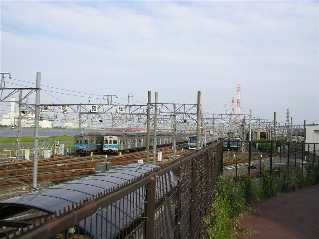 Gyotoku Depot